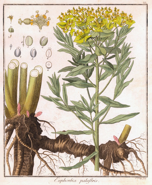 Euphorbia palustris by Peter Haas. From: Getreue Darstellung und Beschreibung der in der Arzneykunde gebräuchlichen Gewächse, wie auch solcher, welche mit ihnen verwechselt werden können by Friedrich Gottlob Hayne.Berlin, the author, 1809, volume 2, plate 23. Hand-coloured engraving (sheet 225 x 280 mm).